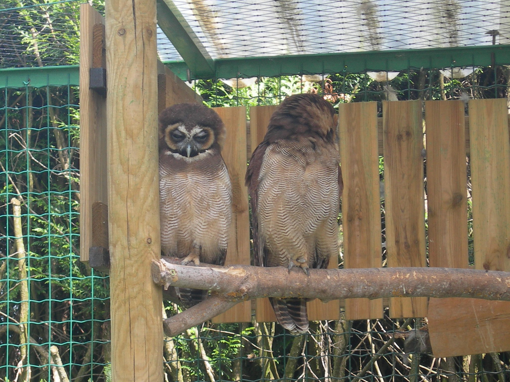 Strix leptogrammica, zoo in Fitilieu, France